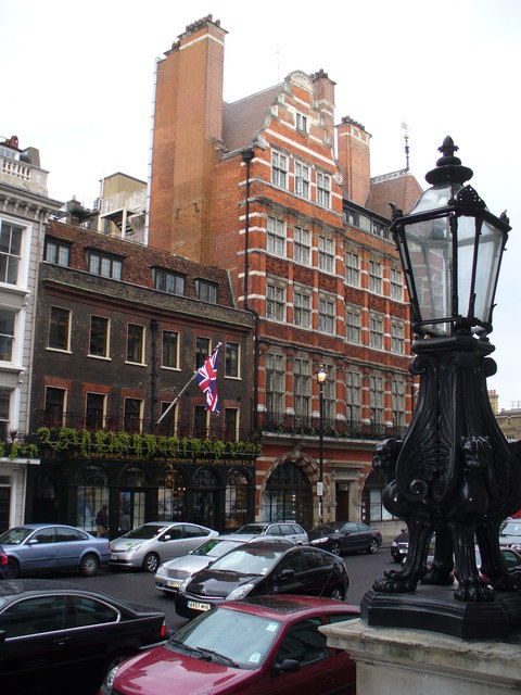 St James's Street Looking across the wide thoroughfare to Britain's oldest wine merchant's shop - Berry Brothers and Rudd.